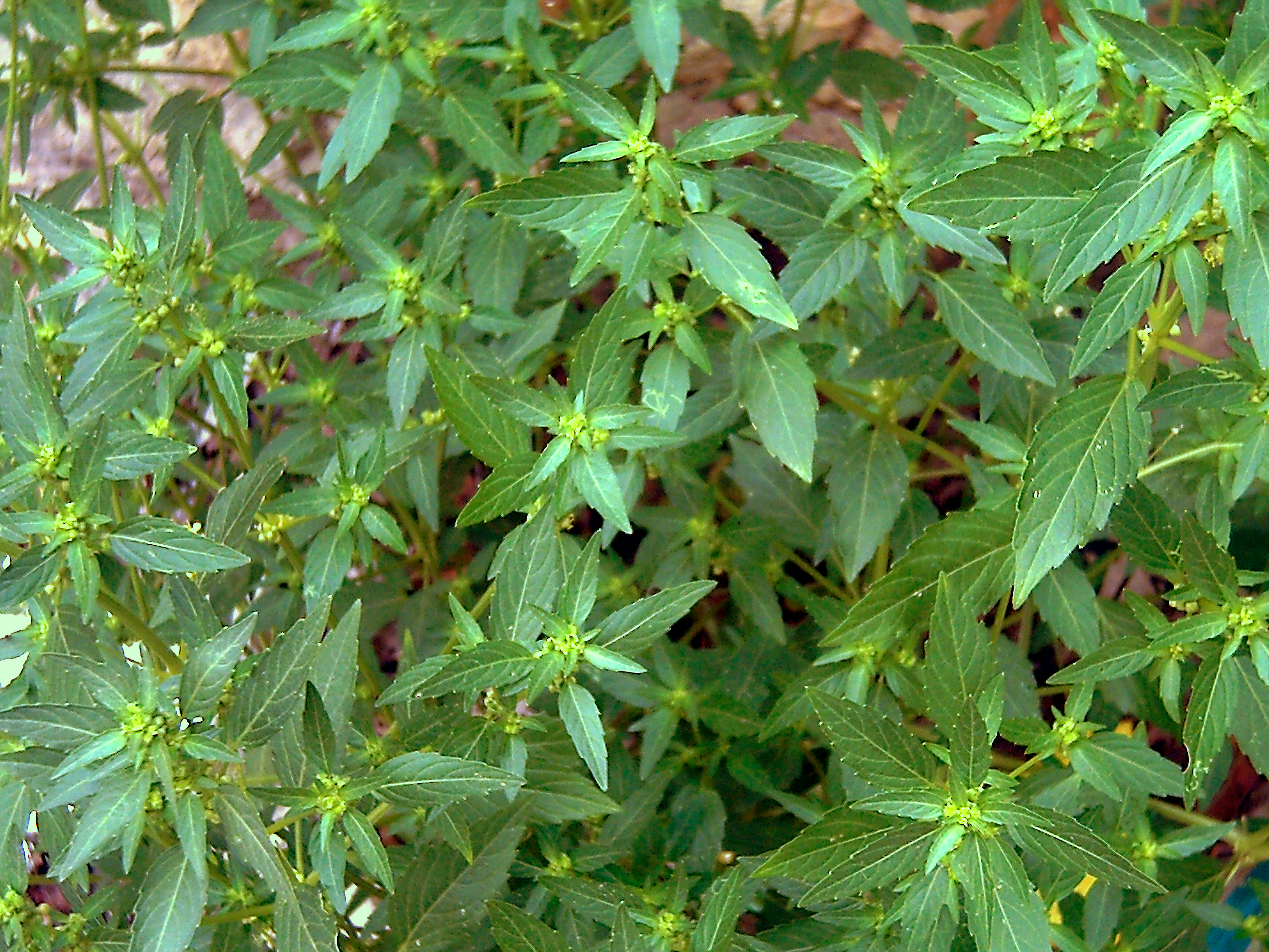 Mercurialis ambigua, Sierra Madrona, Spain